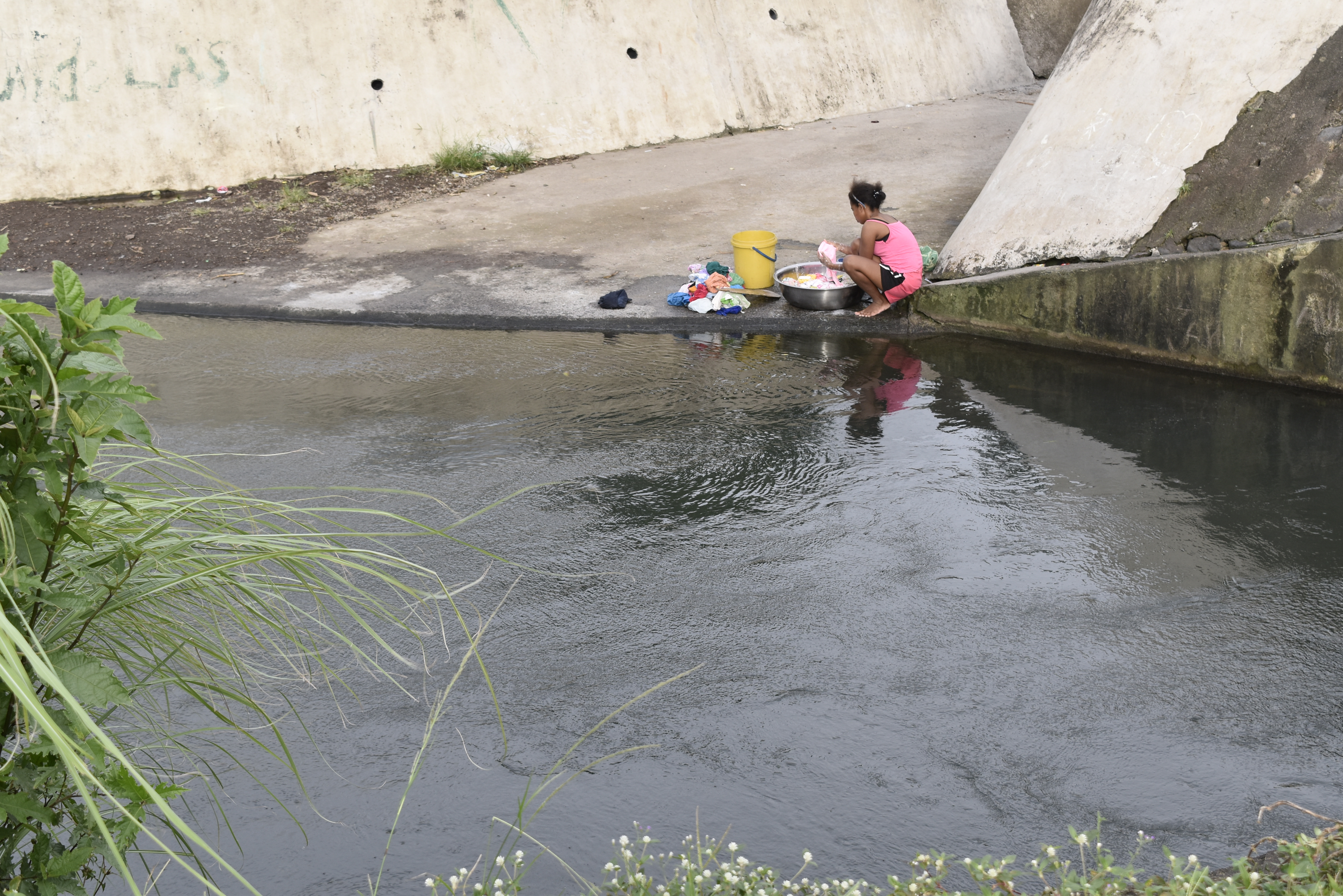 Tradiional washing of clothes in Iriga